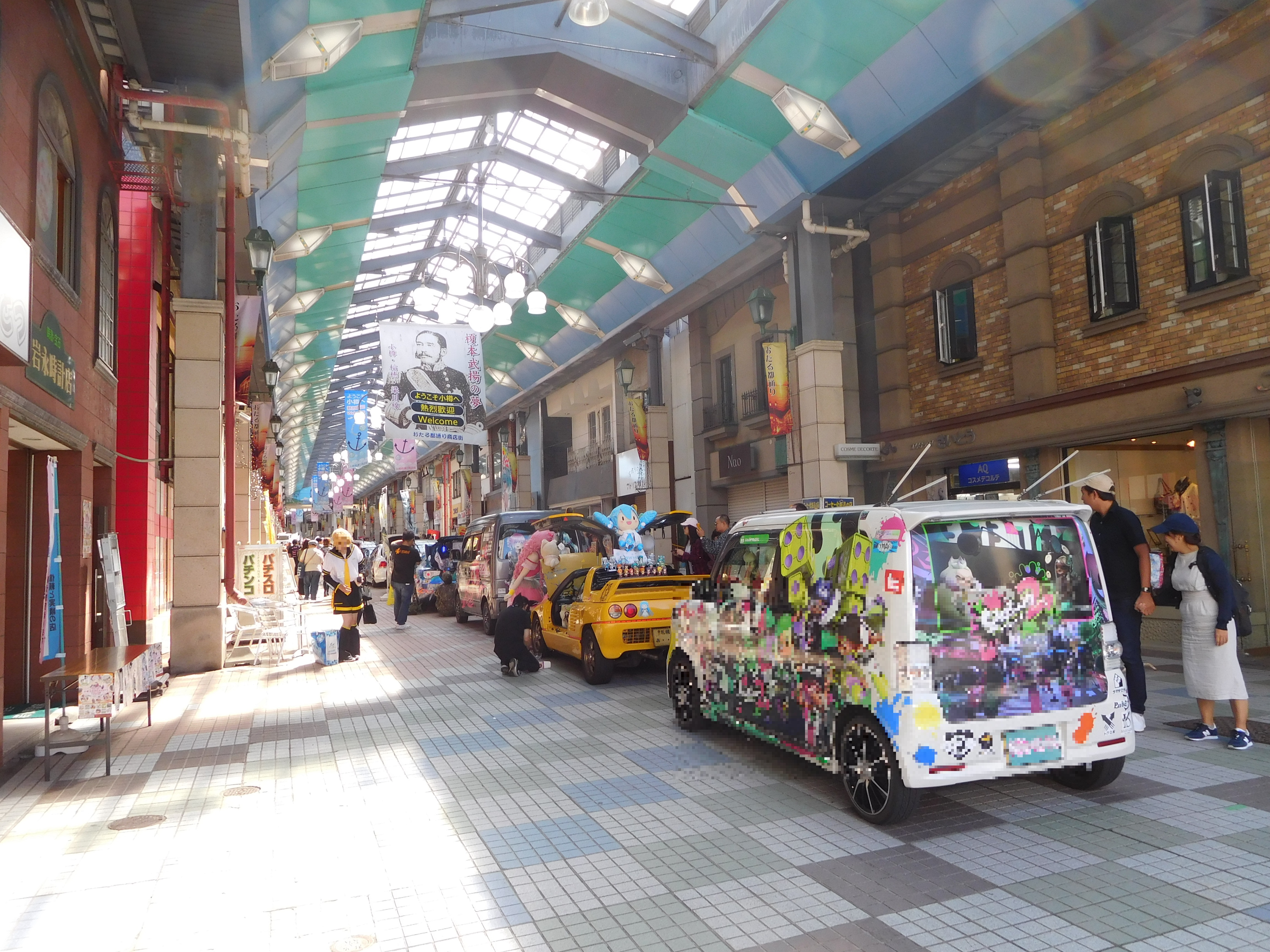 This is one scene of Otaru Anime Party 2018 in Otaru, Hokkaido, Japan.